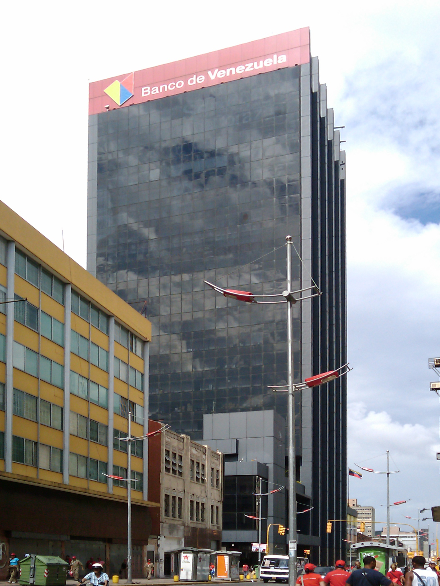 Banco de Venezuela's headquarters in Caracas.